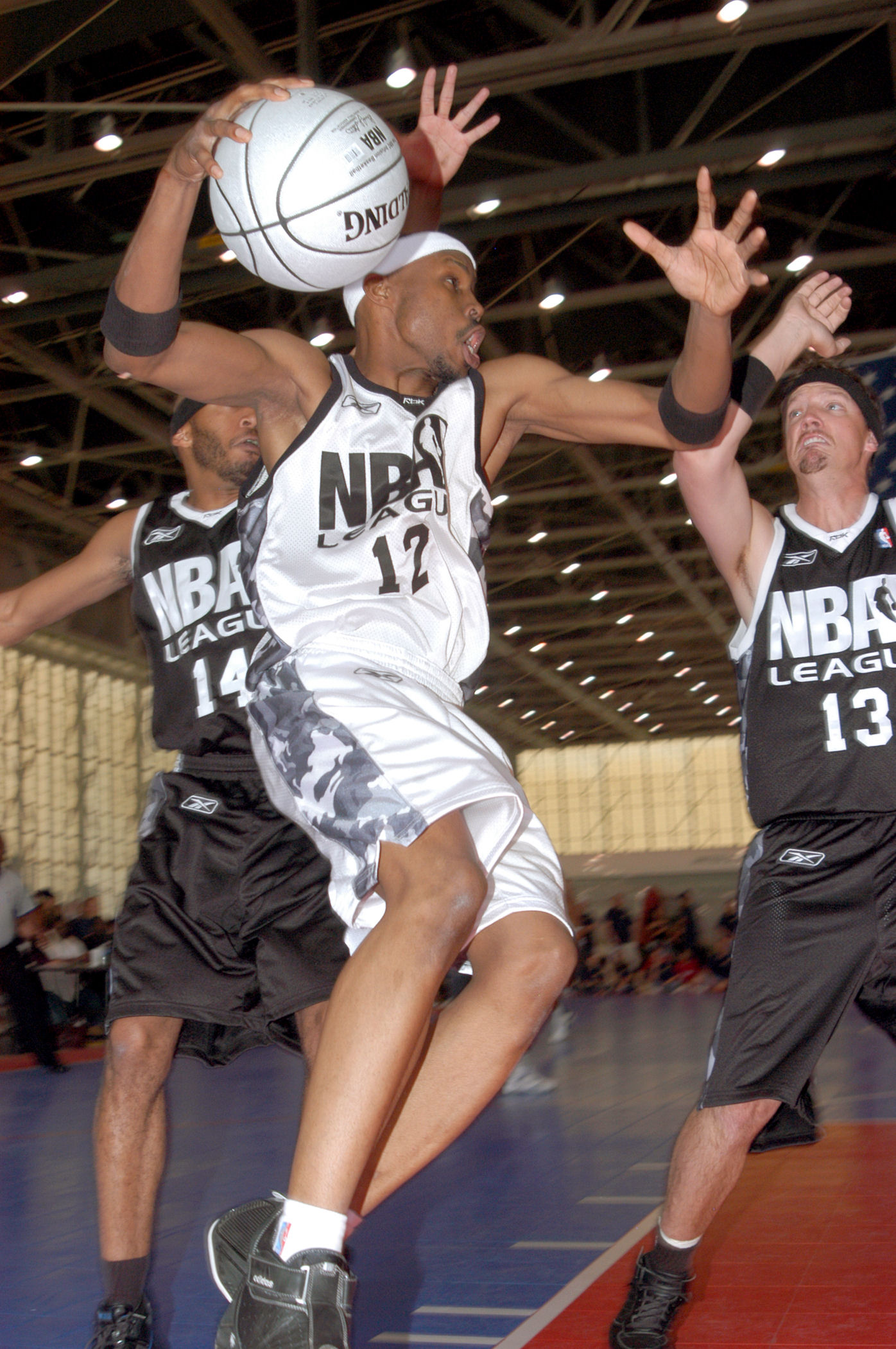 Wood Harris (in white) playing basketball. ; Photographer: Senior Airman Jet Fabara